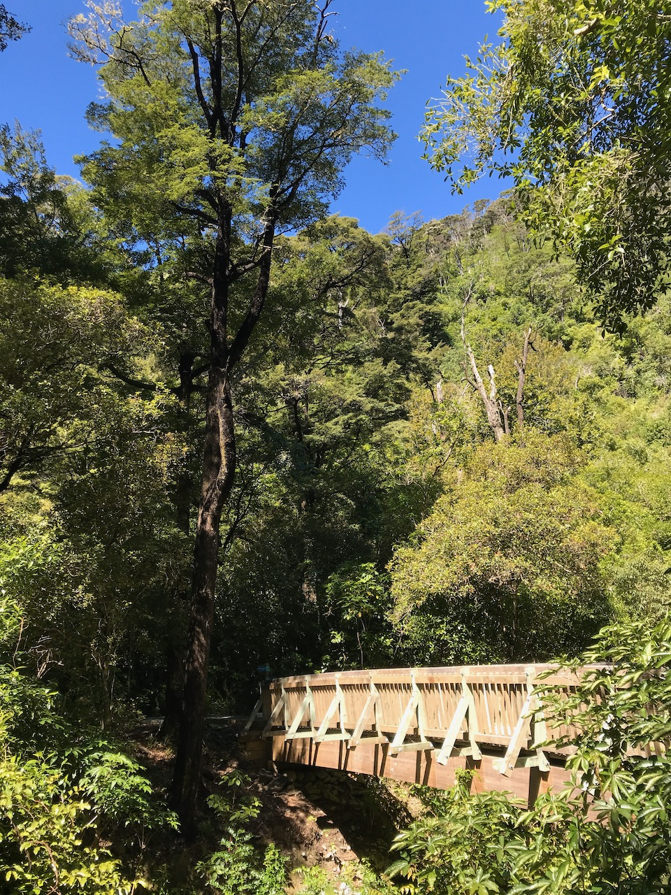 Bridge across the former dam, Brook Waimārama Sanctuary, Nelson, New Zealand